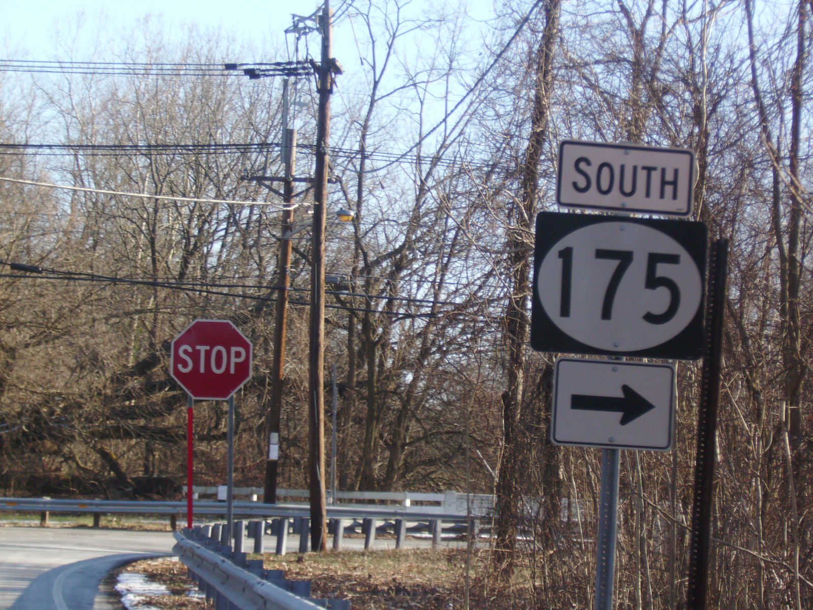 Route 175 heading southbound through Wilburtha, New Jersey and Mercer County Route 634.